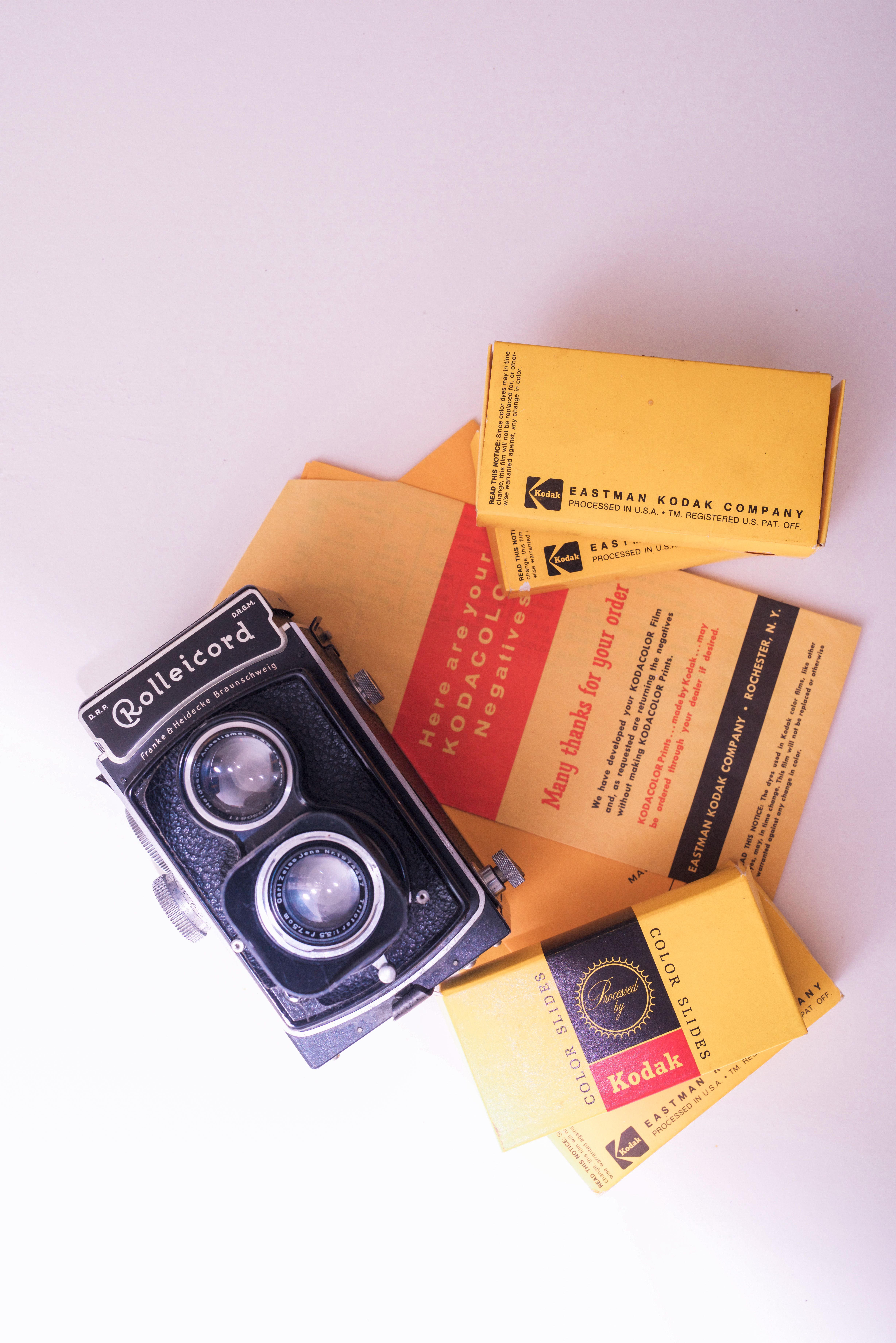 Kodak started out in Rochester N.Y.